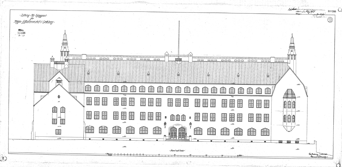 Blueprint for school Hvitfeldtska in Göteborg, Sweden.